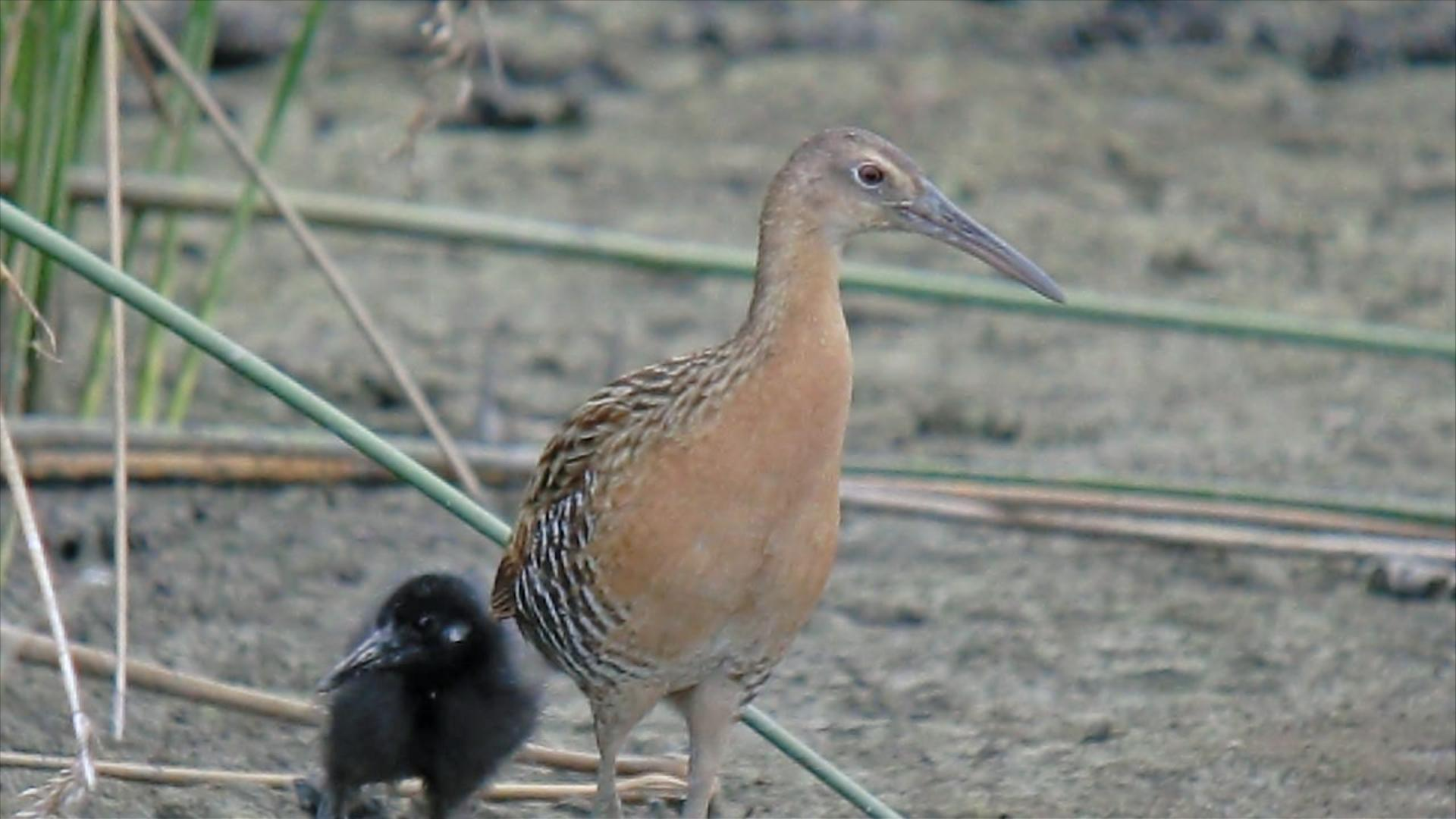 Digiscoped in Monroe County Illinois on 8/28/11 (There were eight young.) A youngster came out and then a parent and then more young and soon it seemed like mayhem until the parent seemed to get them all to follow her across the road.